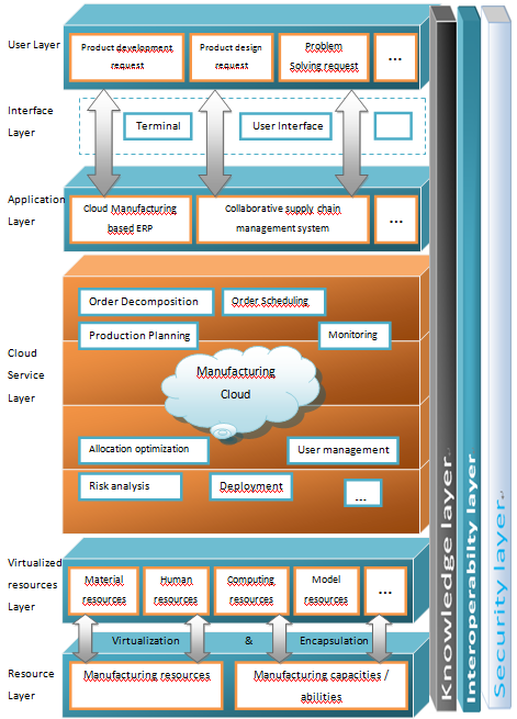 Architecture of Cloud Manufacturing system